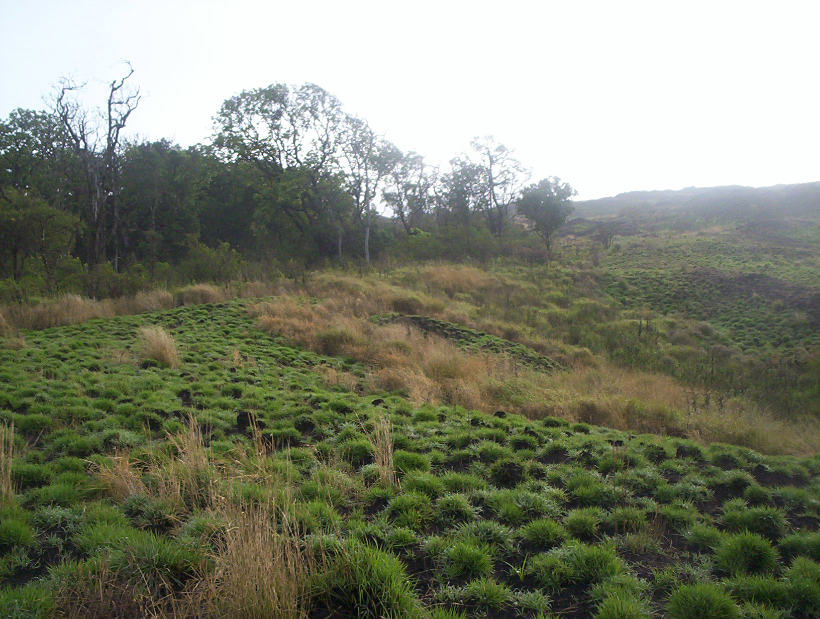 Savanna just above the tree line on Mount Cameroon